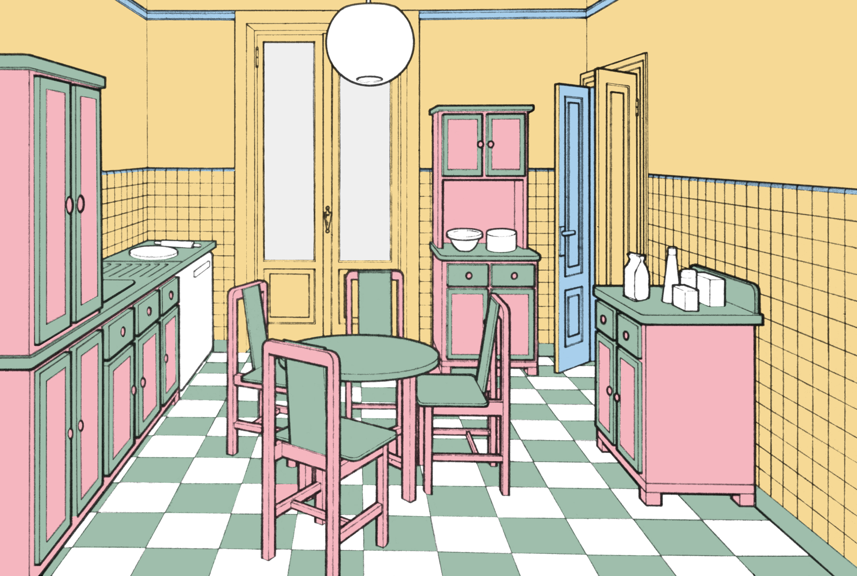 Familiar Landscapes, 1973, drawing by George Sowden.